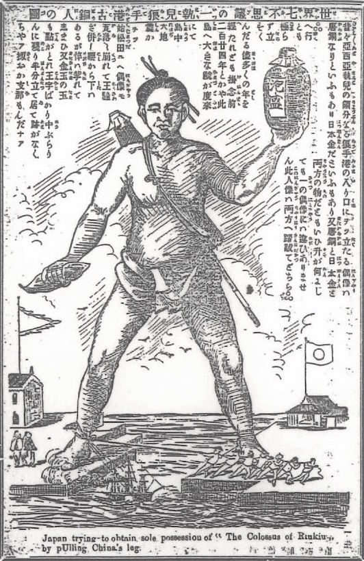 Cartoon depicting Ryūkyū Shobun, published in Marumaru Chinbun on 24 May 1879; described in Tze May Loo (2014). Heritage Politics: Shuri Castle and Okinawa's Incorporation into Modern Japan, 1879–2000. p. 28